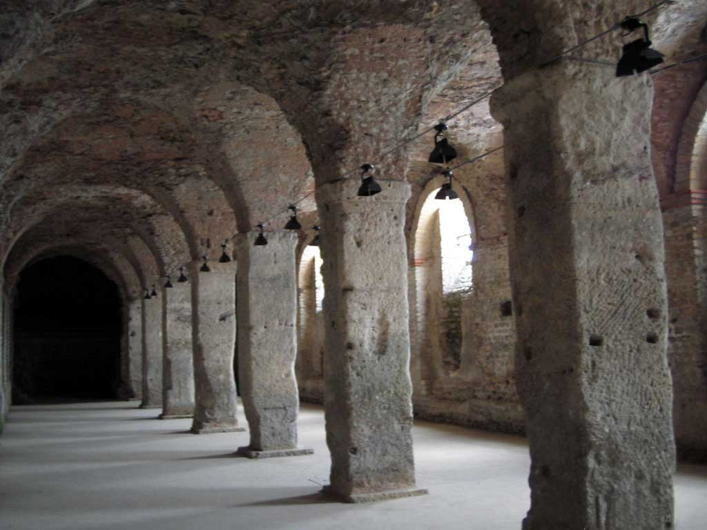 The Cryptoporticus (3rd century)of Reims, France, part of the ancient Roman forum.